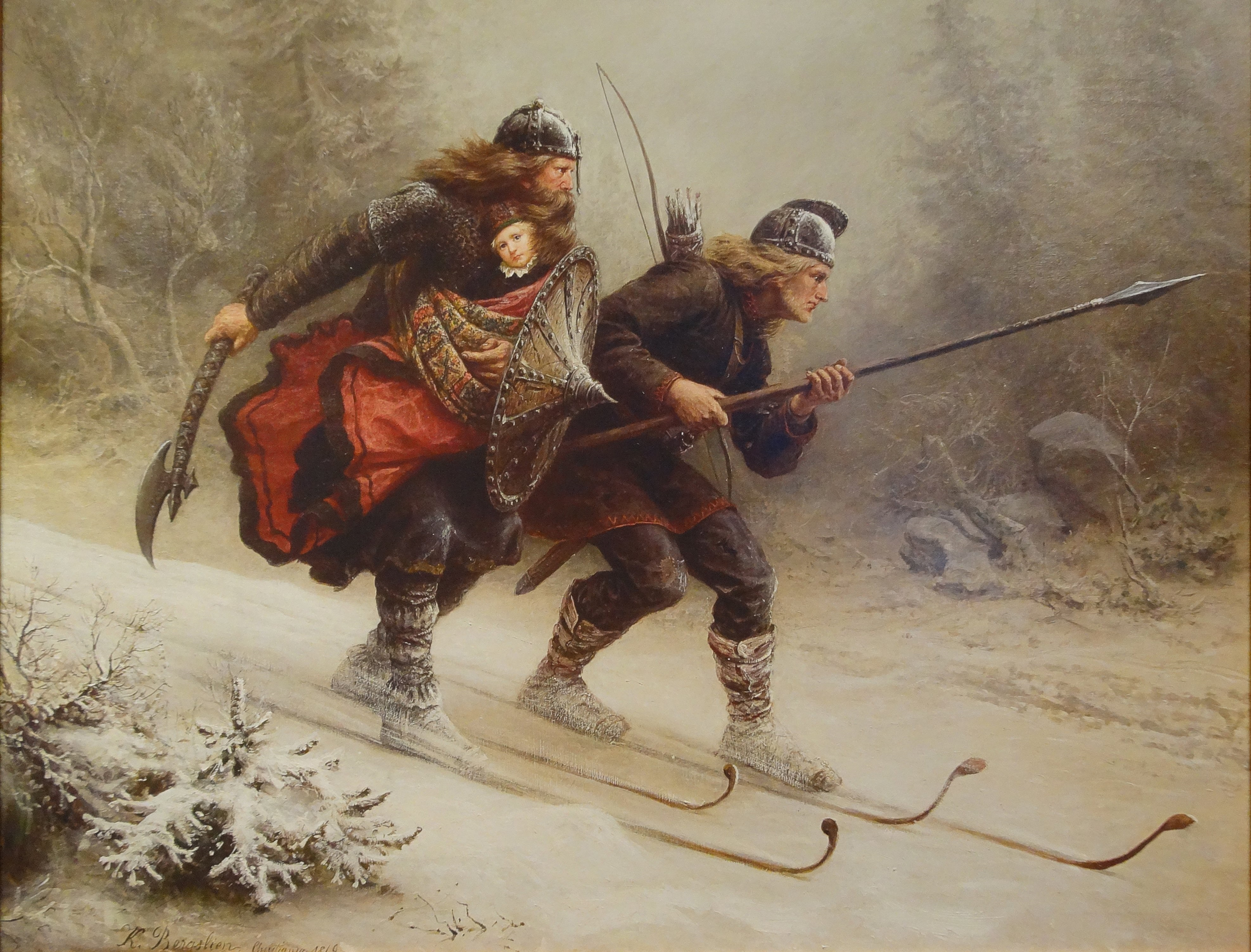 According to legend, the top two Birkebeiner skiers, Torstein Skjevla and Skjervald Skrukka, took Håkon Håkonsson (the king's son) to safety with King Inge II at Christmas. To avoid the expected Bagler opposition, they avoided the normal way through Gudbrandsdalen, but instead moved in frost, snow, and bad weather on Østerdalen into the mountains. In memory of this particular act, in 1932 the Birkebeinerlauf was lifted from the baptism. ("Birkebeiner" called themselves rebels in the time of the Norwegian Civil War in the 13th century. The name comes from the propaganda of their political opponents, the Bagler, because the rebels had fled after an initial defeat in the woods and had wrapped their calves with birch bark as protection from the cold. The Bagler sought the king's son Håkon Håkonsson, who later as King Håkon IV of Norway would govern from 1217 to 1263, for life.)